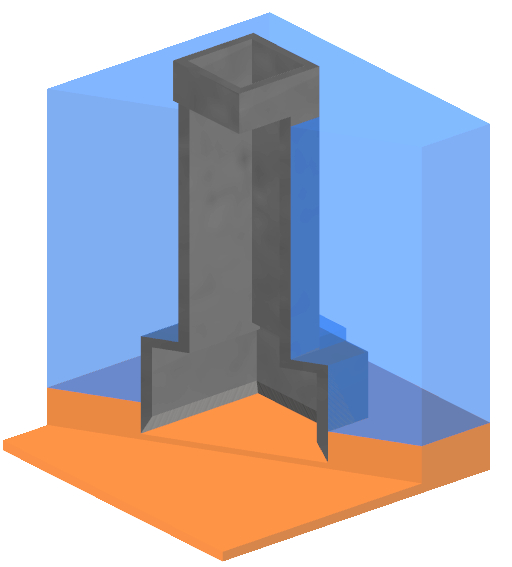 Open caisson